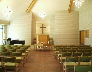 Randers Seventh-day Adventist Church, interior